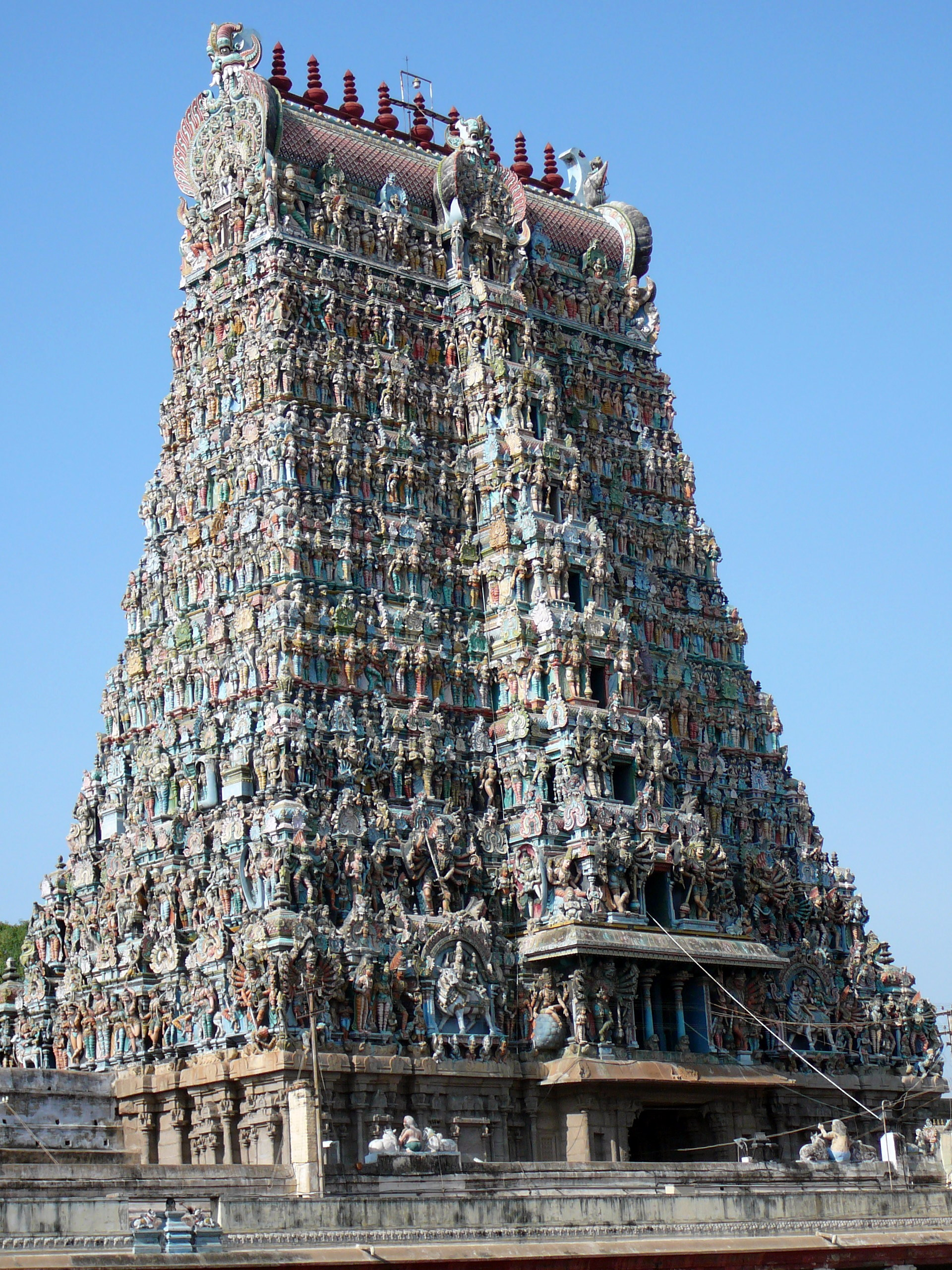 Gopuram of the Meenakshi Amman Temple at Madurai